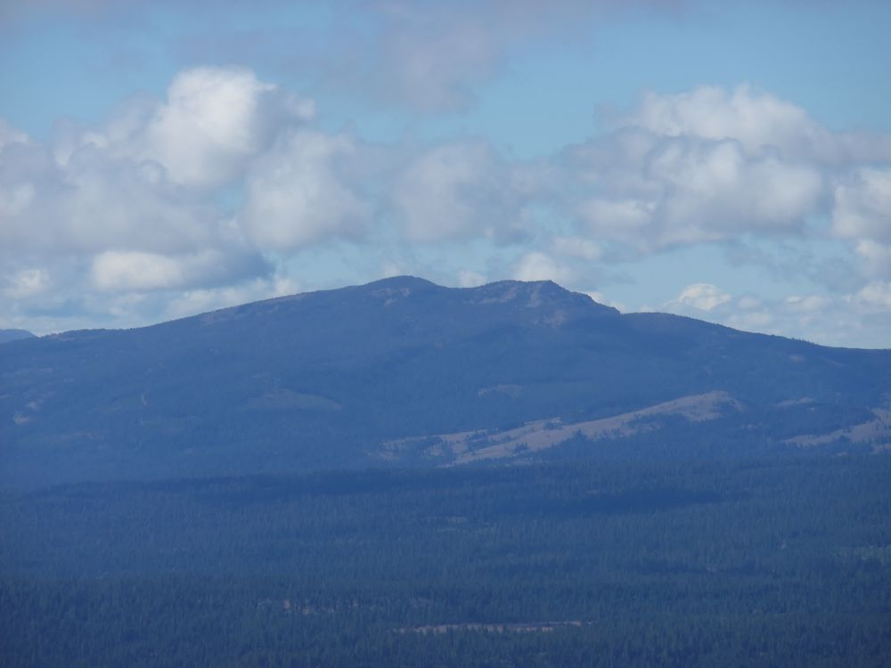 North slope of Crane Mountain in south-central Oregon. Crane Mountain is the highest peak in Lake County, Oregon.